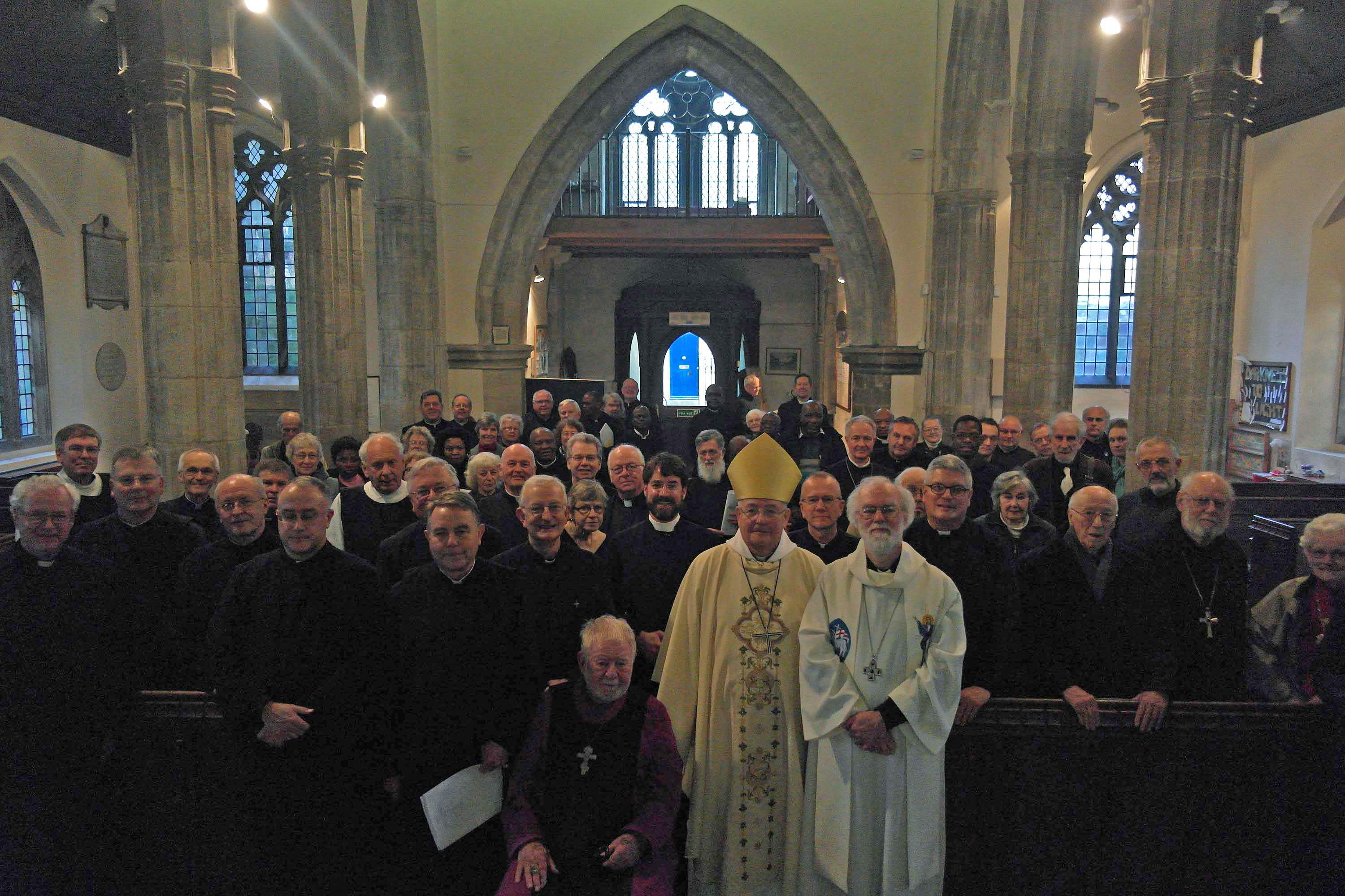 Members of OGS is St Edward King and Martyr, Cambridge after the Centenary Eucharist. Bishop Jack Nicholls, the Episcopal Visitor, is in the centre with Archbishop Rowan Williams.